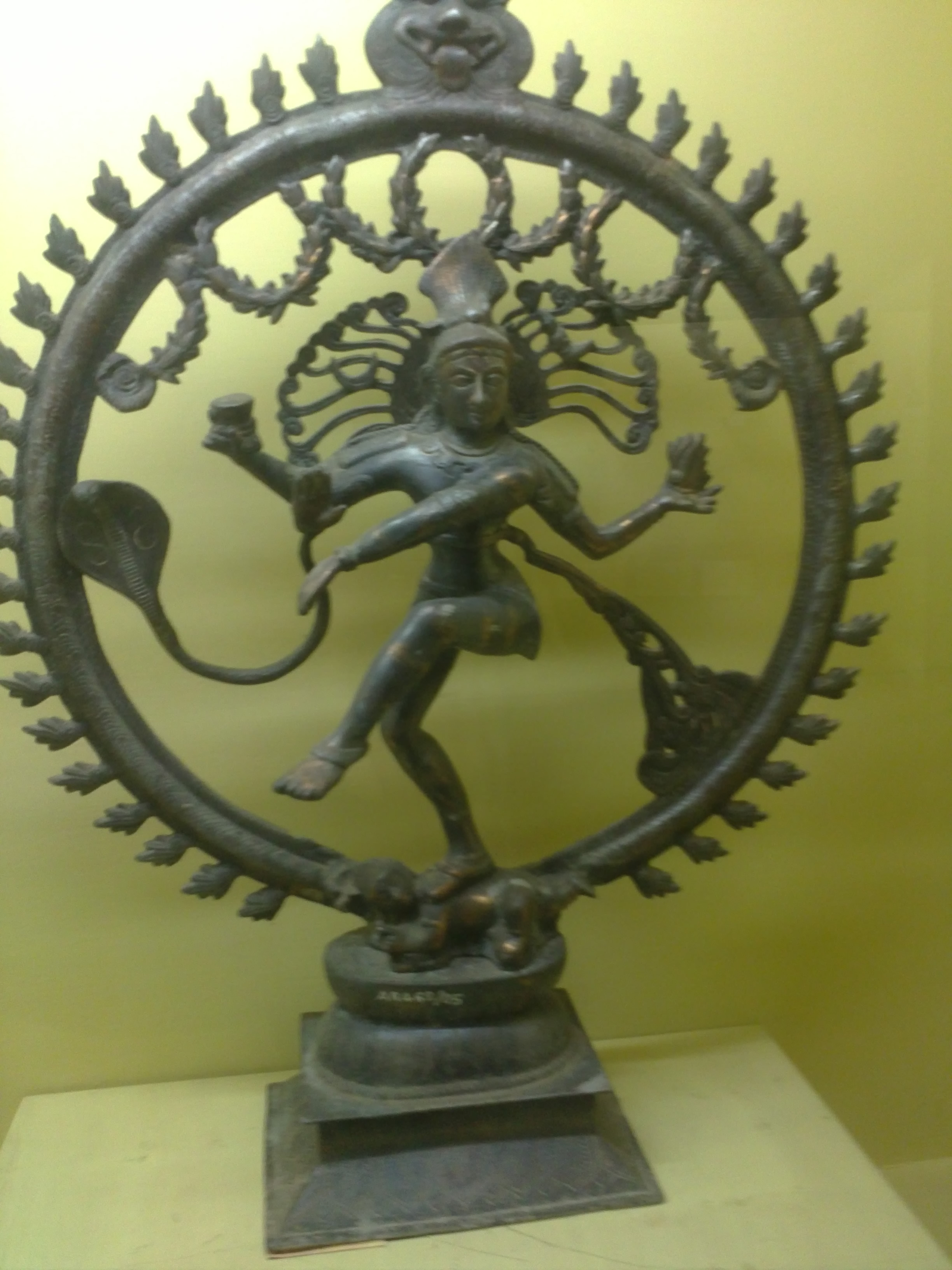 Natarajar in vellore fort gallery